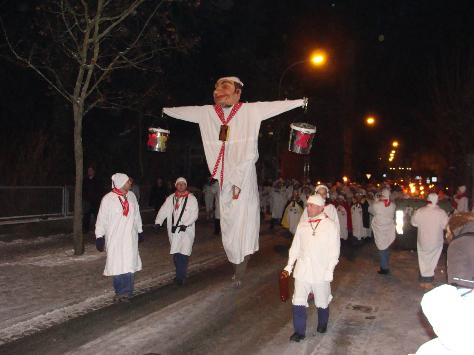 Hemdglonker in Radolfzell (Germany); February 2010